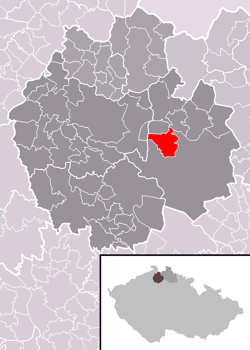 Location of Mimoň town within Česká Lípa District and administrative area of Česká Lípa as a Municipality with Extended Competence.